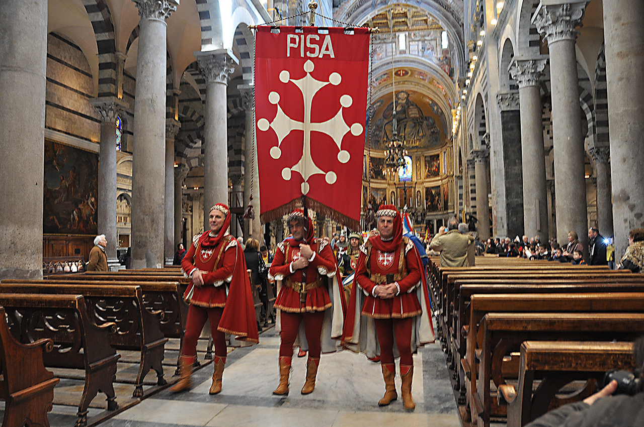 The parade with the Pisa banner inside the Cathedral